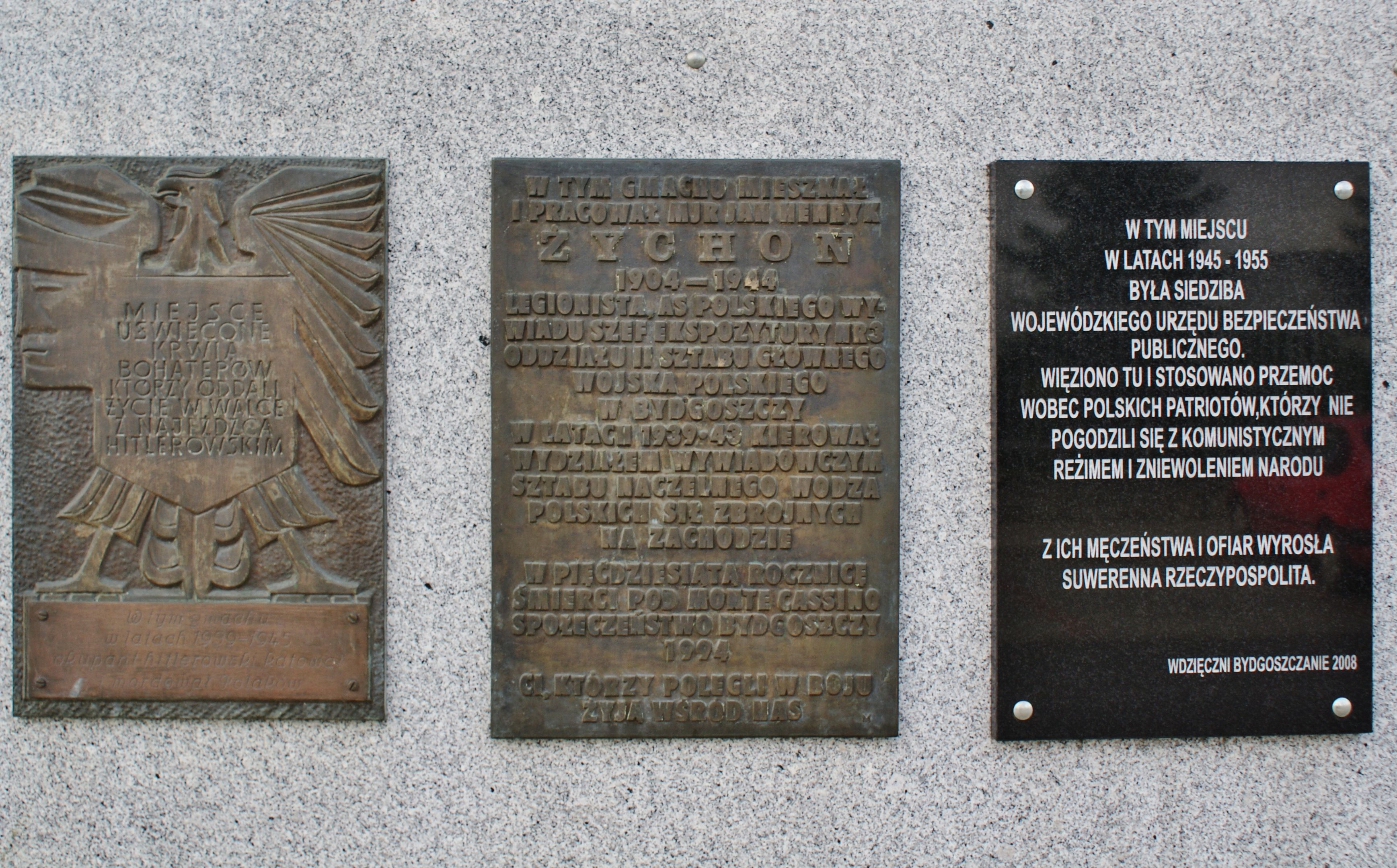 Freedom fighters commemoration plaques, Bydgoszcz City Police Headquarters, Poniatowski Str., Bydgoszcz, Kuyavian-Pomeranian Voivodeship, Poland. The inscriptions say: first from the left: "Place honoured with blood of heroes, that gave their lives fighting with the nazi invaders" middleone: "mjr Jan Henryk ŻYCHOŃ lived and worked in this very building. Piłsudski's Legions soldier, Polish Intelligence Service Ace, chief of 3rd Intelligence Office of 2nd Polish Army Headquarters in Bydgoszcz. He run the Intelligence Department of Polish Army in the West Comender in Chief Headquarters between 1939 and 1943. Died in battle of Monte Cassino. In 50th aniversary of his death People of Bydgoszcz. 1994" first from the right: "This place was a seat for the Public Scurity Office between 1945 and 1955. Polish patriots who did not agree for communistic regime and national bondage were imprisoned and tortured here. Of their martyrdom and sacrifice sovereign Republic arose. Grateful Bydgoszcz inhabitants 2008"